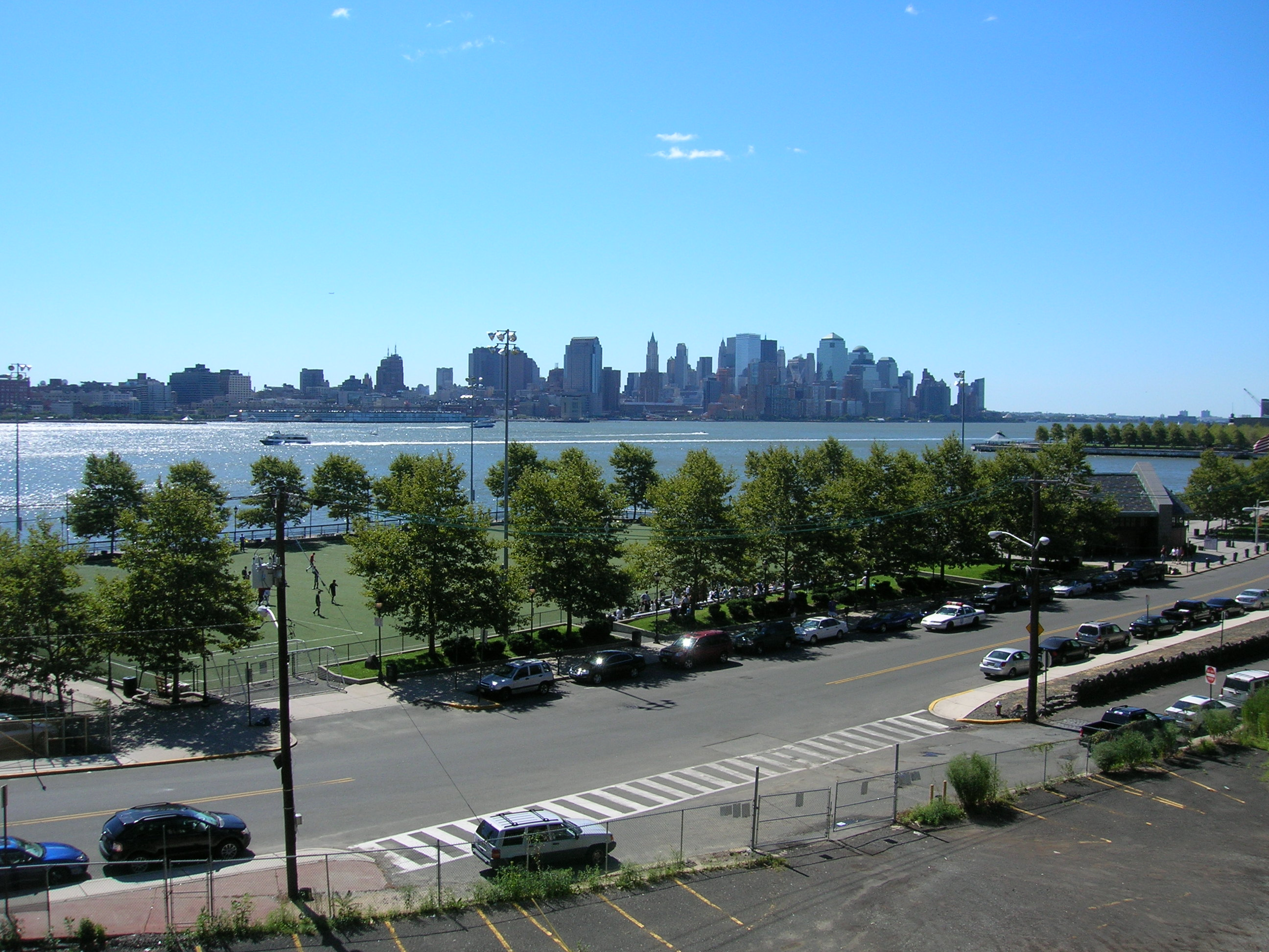 A view of the New York City Skyline from the Babbio Center at Stevens Institute of Technology.